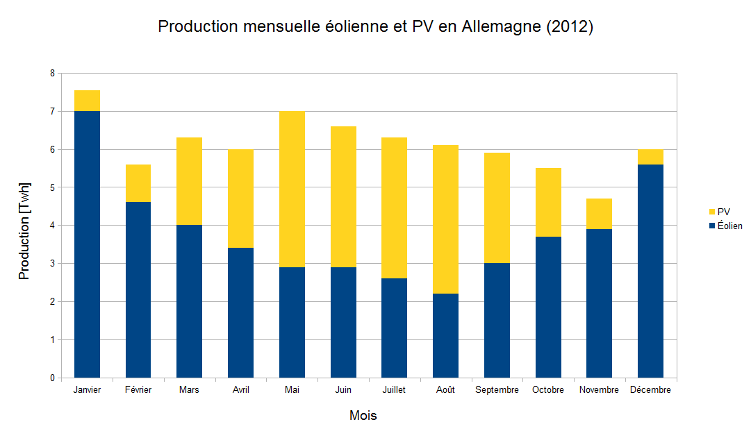 Monthly wind and PV power production in Germany in 2012. Chart illustrating the complementarity between wind and solar power production over the year. Wind turbines producing more during winter months, while photovoltaic panels are more productive during summer months.